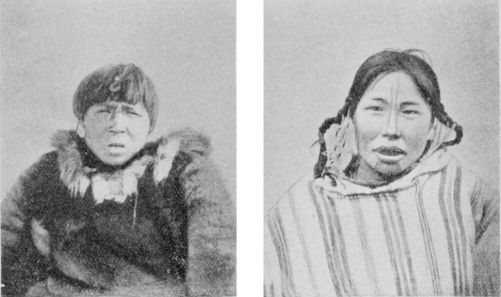 Reindeer chukchhe and eskimo girl